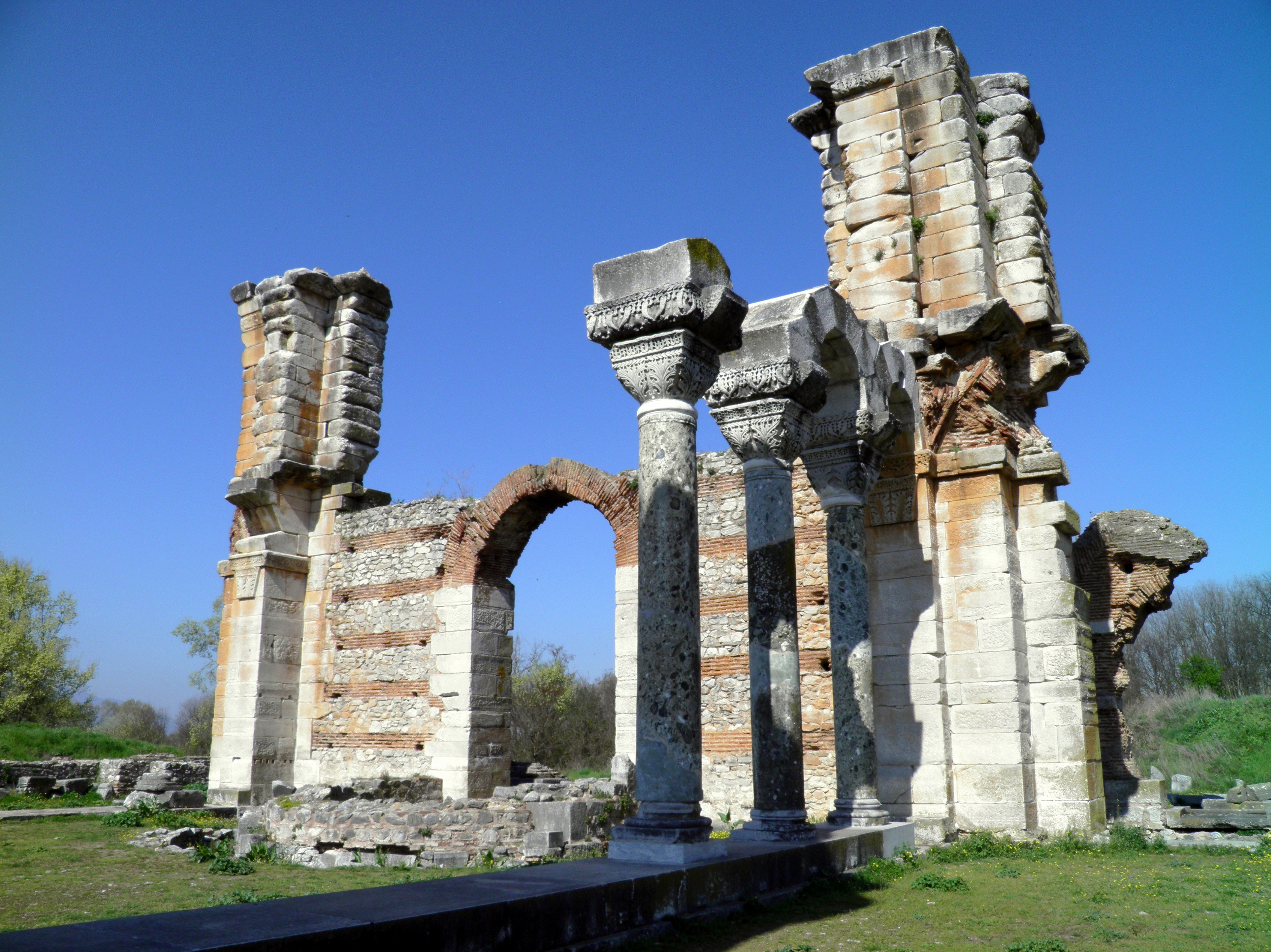 In the VIth century the inhabitants of Philippi embarked on the construction of an imposing basilica on the site of the town's palaestra; the size of the planned building clearly exceeded the needs of the town, thus indicating that Philippi attracted many pilgrims. There is uncertainty among archaeologists whether the gigantic pillars of the basilica ever supported a dome; in 547 the so-called Justinian plague devastated the countries of the Mediterranean basin and in the early VIIth century an earthquake struck the region of Philippi; these two catastrophic events could have halted the completion of the basilica. The decoration of the basilica moved away from classic patterns; all representations of human beings and animals were banished and even the acanthus leaves of Corinthian capitals were depicted in an almost symbolic way; this type of "combed" capitals can be observed also at many Byzantine locations in Syria of the same period. The basilica was at the centre of a complex of buildings which included a chapel reserved to the bishop and a baptistery; the whole complex was built with materials taken from ancient monuments, but the stones were completely reworked in order to eliminate all references to gods, human beings and animals.